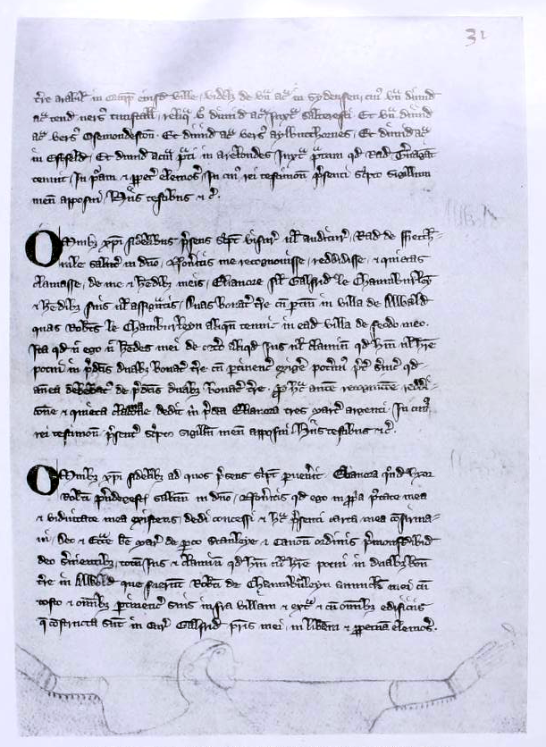 Part of the cartulary of Dale Abbey, Derbyshire, reproduced in Cox, J. Charles (1901). "The Chartulary of the Abbey of Dale". Journal of the Derbyshire Archaeological and Natural History Society 24: 83-4. Bemrose and Sons. Retrieved on 22 August 2019. This is folio 36. A summary of the text is on page 96 and a transcription of the Latin text at Saltman, Avrom , ed. (1967) The Cartulary of Dale Abbey, JP 11, London: HMSO, pp. 109-10 In the middle section Ralph de Frescheville quitclaims two bovates of land at Alvaston to Eleanor, daughter of Geoffrey Chamberlain, for three marks in silver. In the lower section Eleanor grants the land to Dale Abbey.